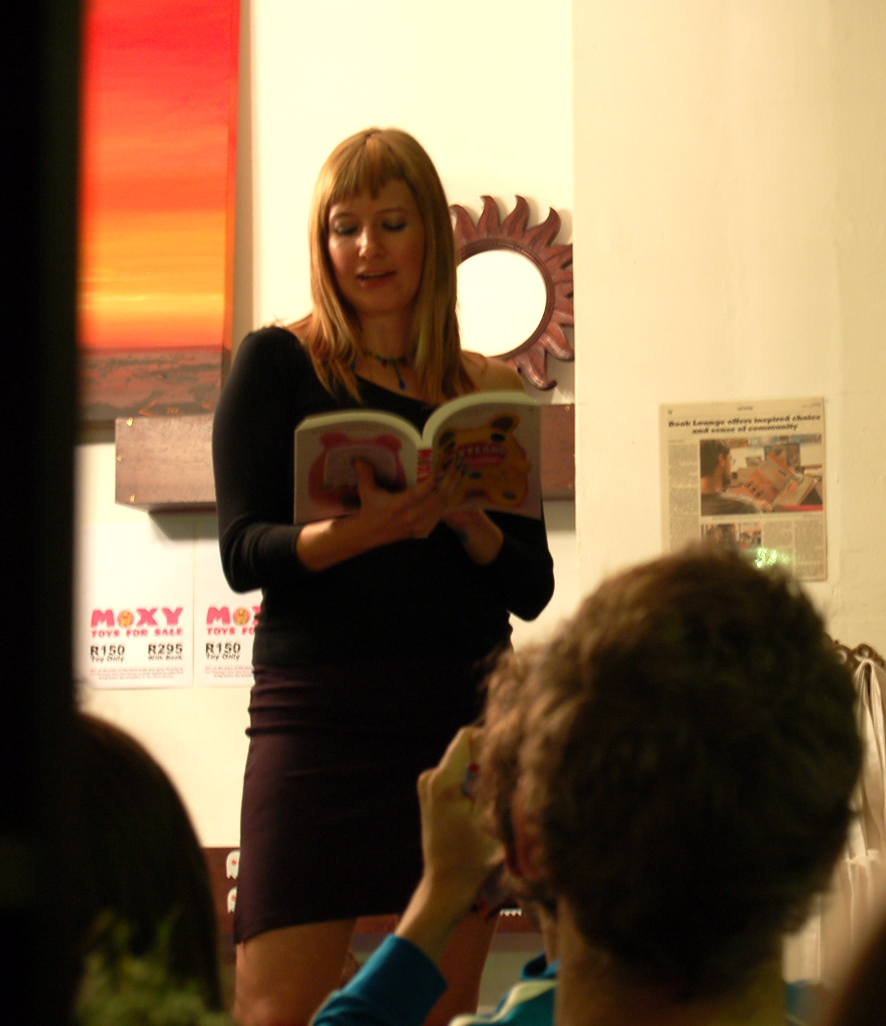 Novelist Lauren Beukes at the launch of her first novel, "Moxyland", Cape Town 2008